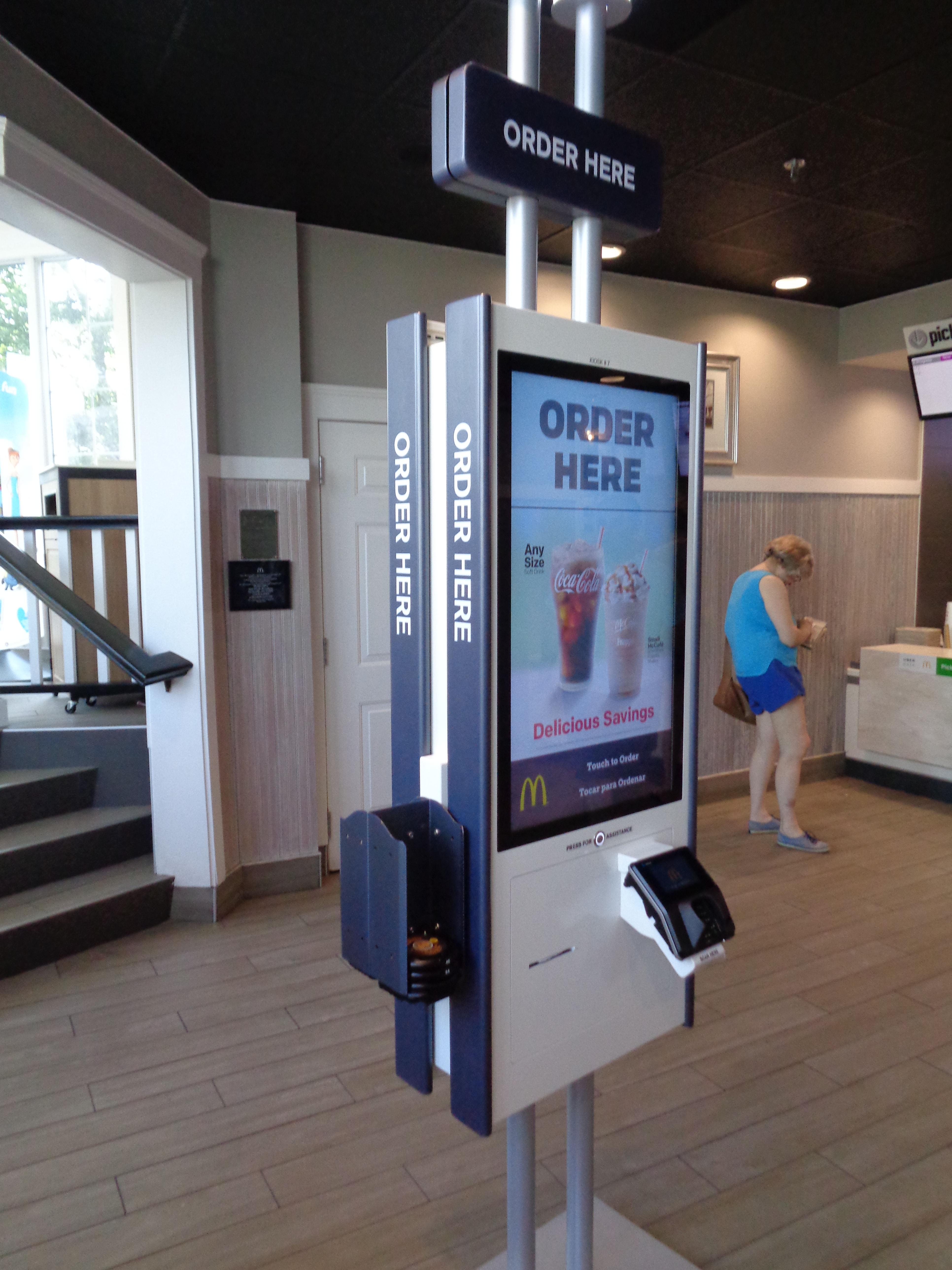 An interactive ordering kiosk inside the Denton House McDonald's restaurant in New Hyde Park, Nassau County, New York.